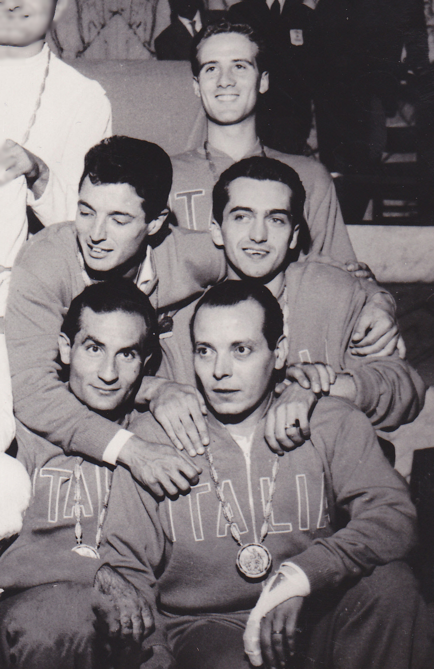 Italian sabre team at the 1960 Olympics